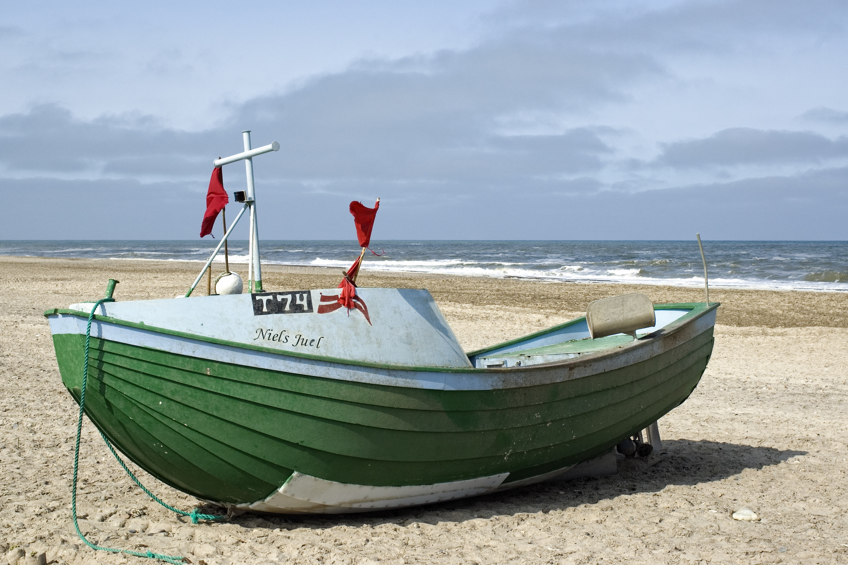 Small fishing boat on the west coast of Denmark.